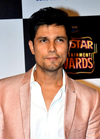 Randeep Hooda at the 2014 BIG Star Entertainment Awards.